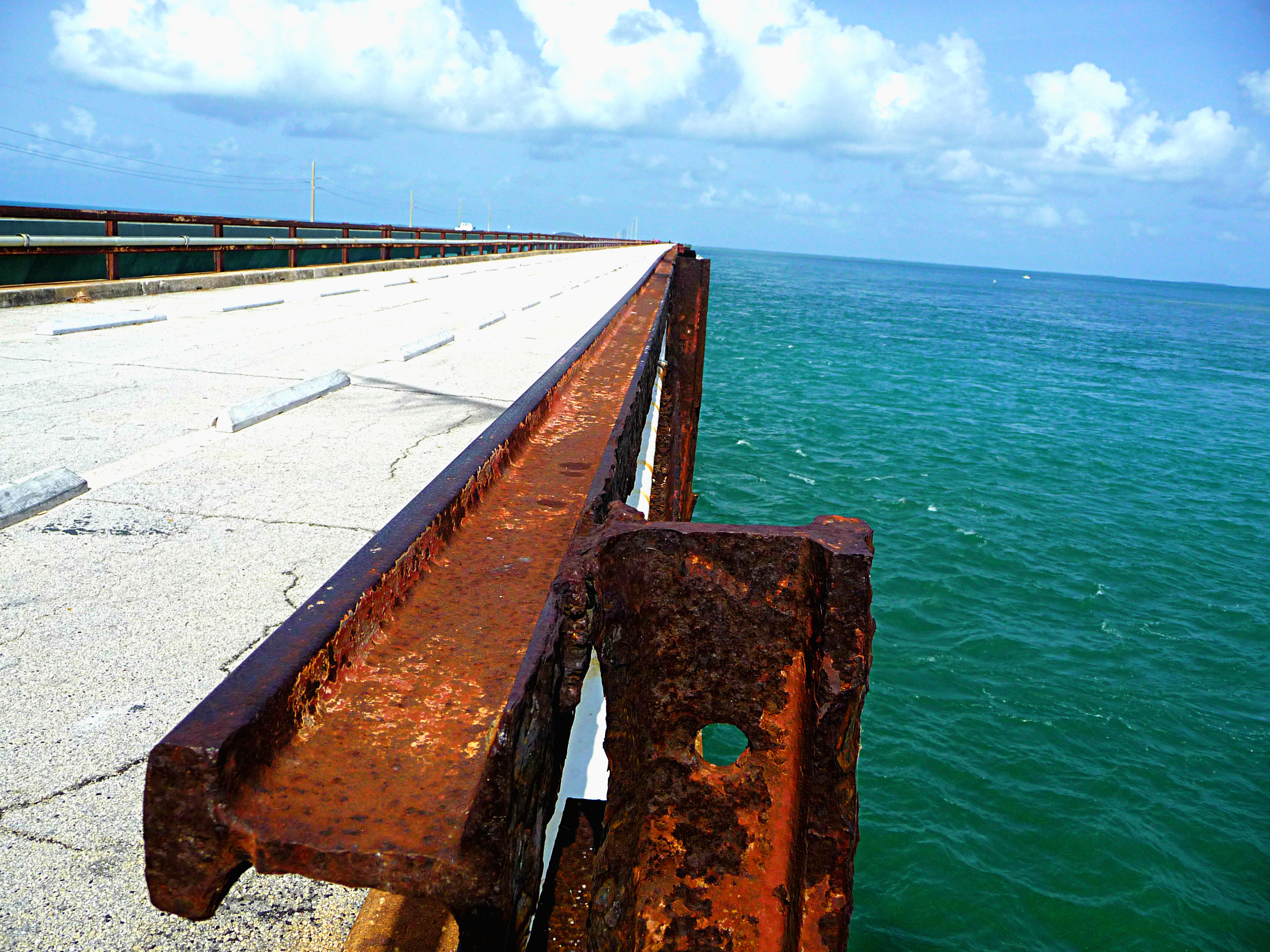 Florida Keys 7 mile bridge 2